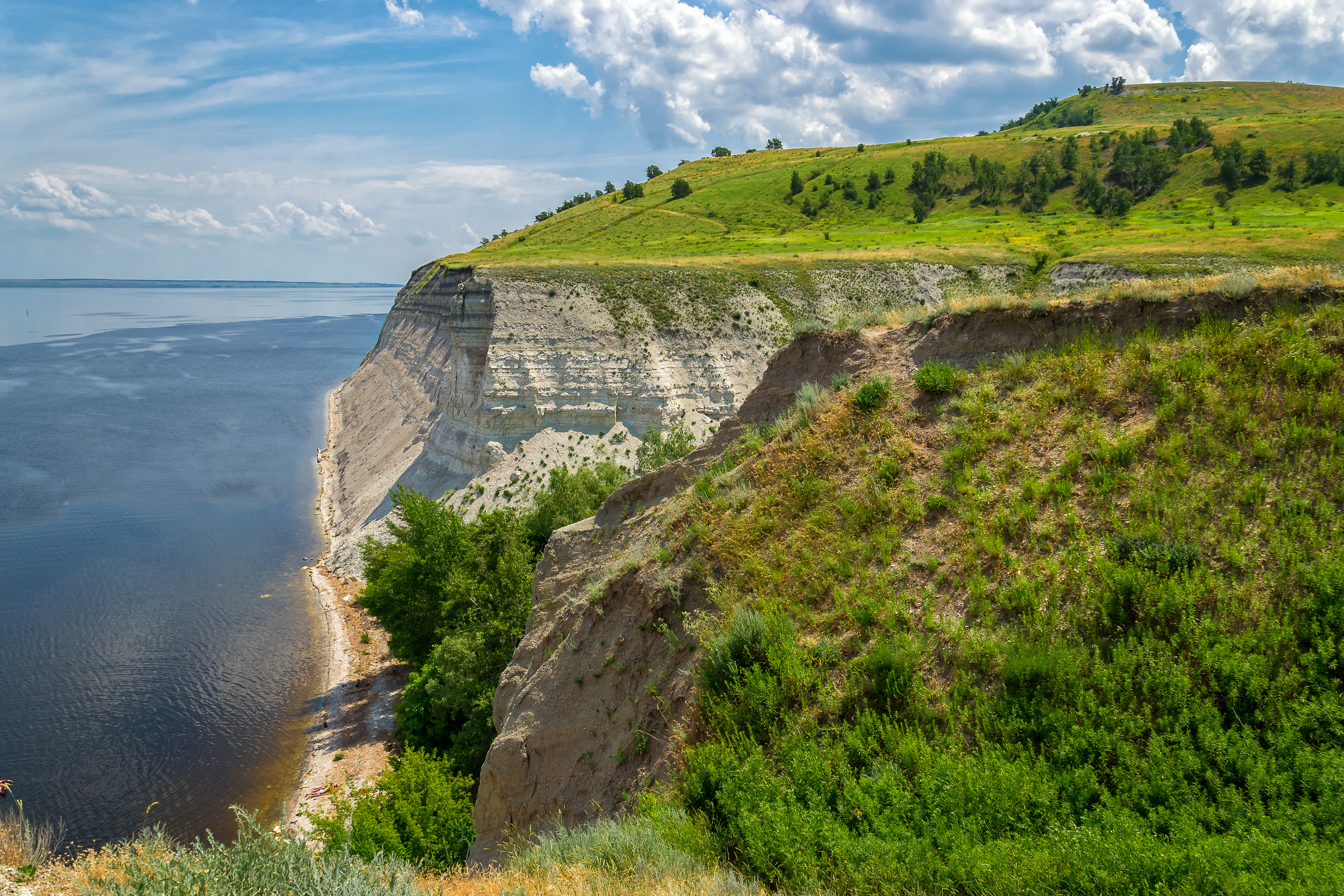 Durman Hill at Volga River bank in Saratov Oblast, Russia